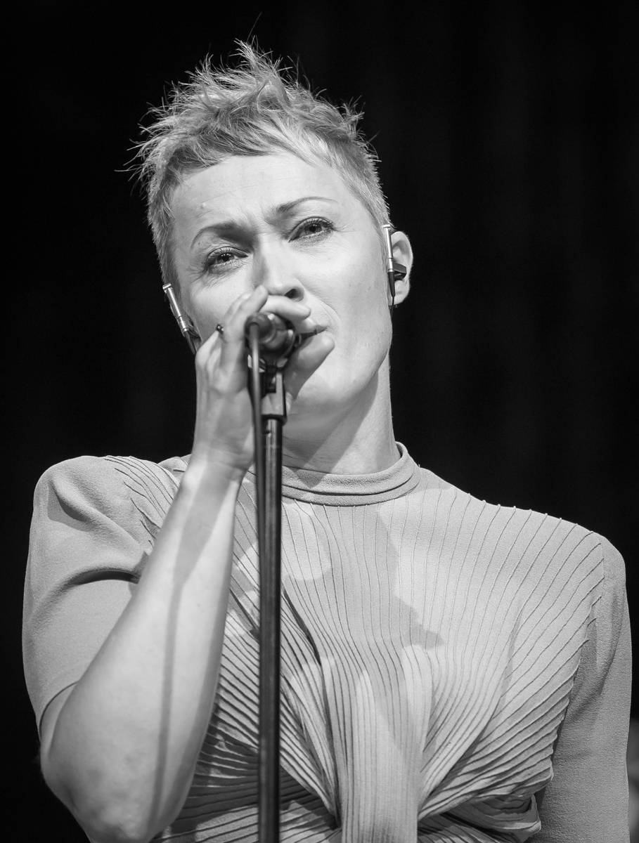 Live Maria Roggen performs with Come Shine and KORK at the stage of Sentralen. The concert was part of the Oslo Jazz Festival in Norway and took place on 17. August 2016. Lineup: Sondre Meisfjord (bass) Håkon Mjåset Johansen (drums) Erlend Skomsvoll (piano) Live Maria Roggen (vocal)